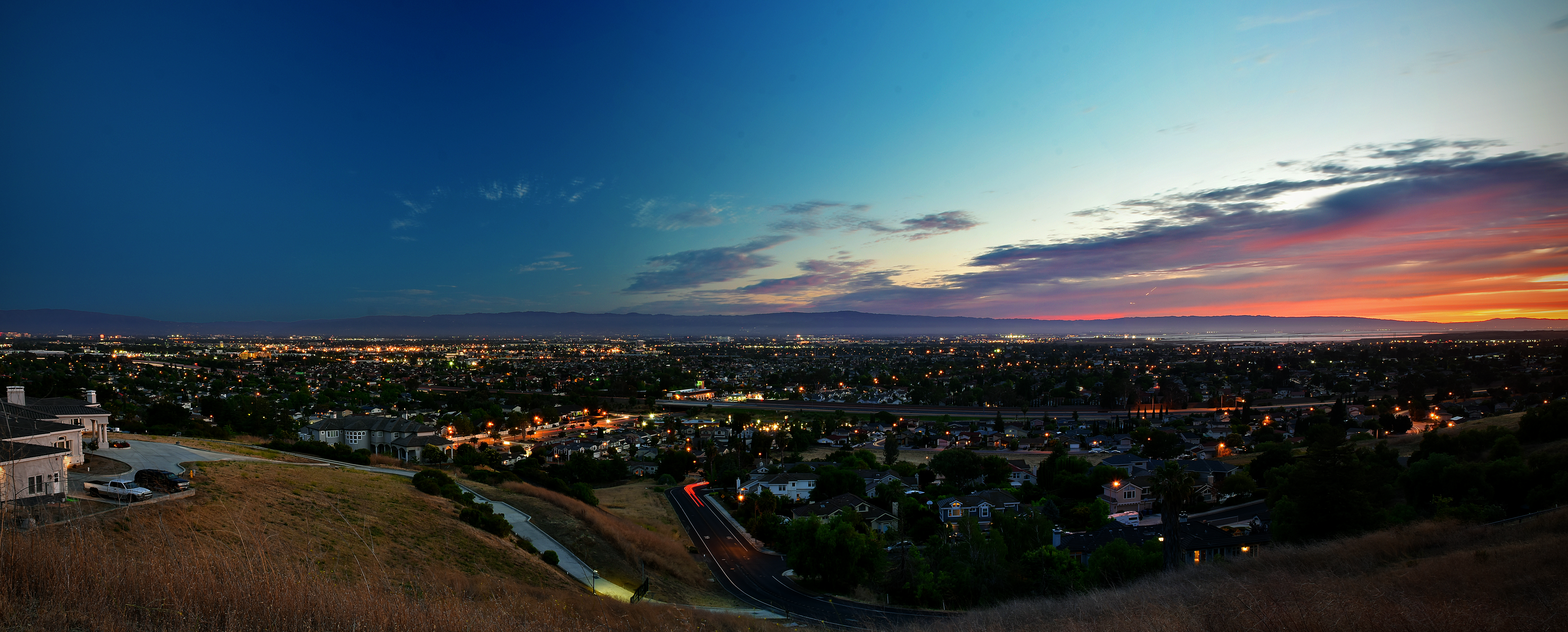 Sunset over silicon valley during summer solstice 2016